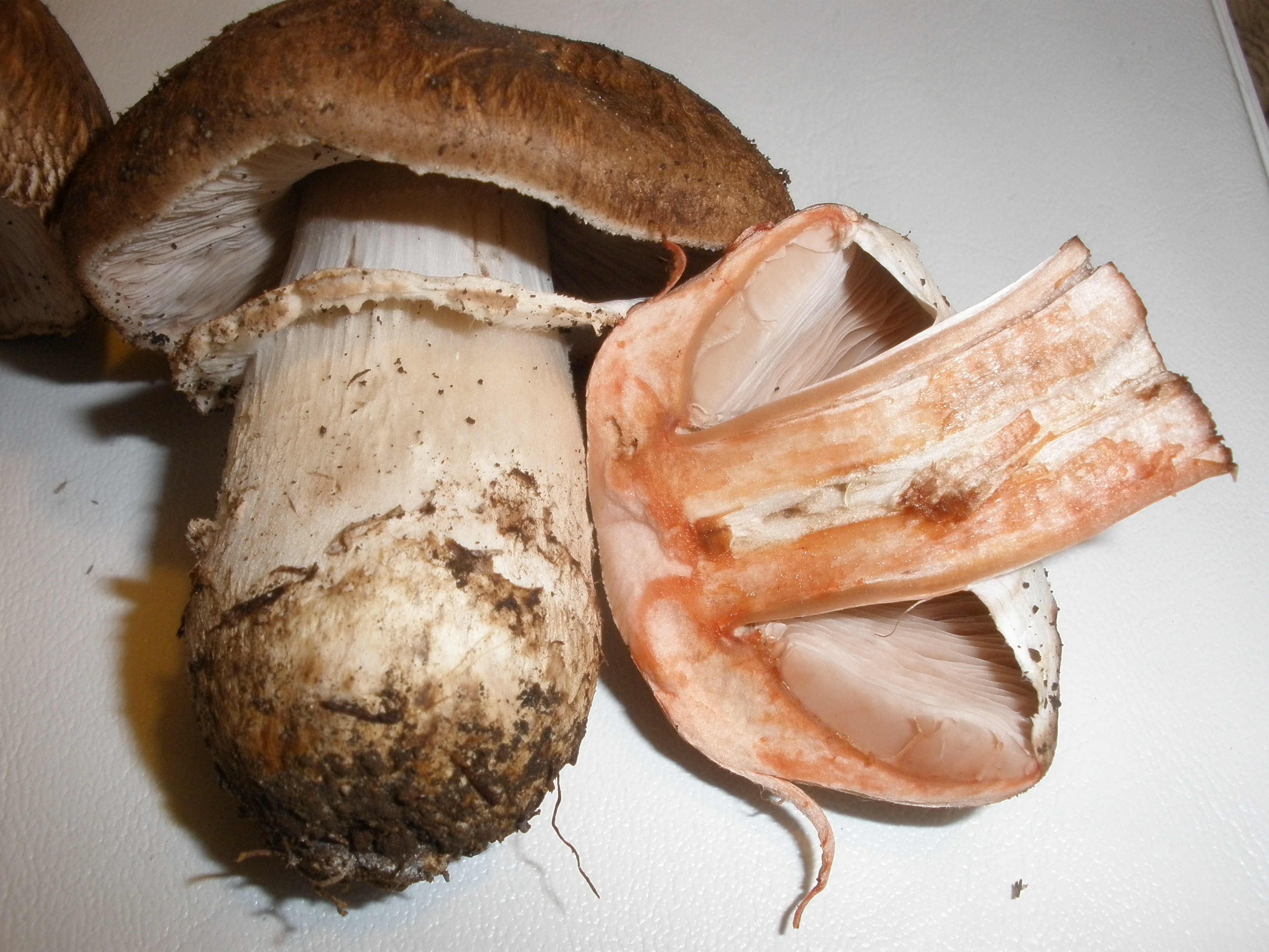 Fruit bodies of the mushroom Agaricus pattersoniae Peck. Photographed in San Simeon, California, USA.